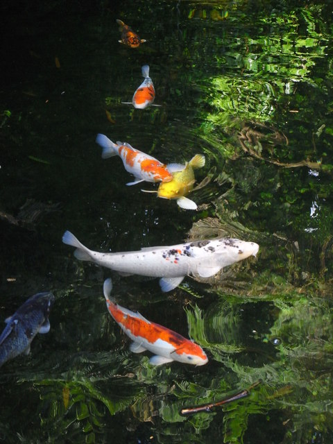 Carp pond, Trebah Gardens